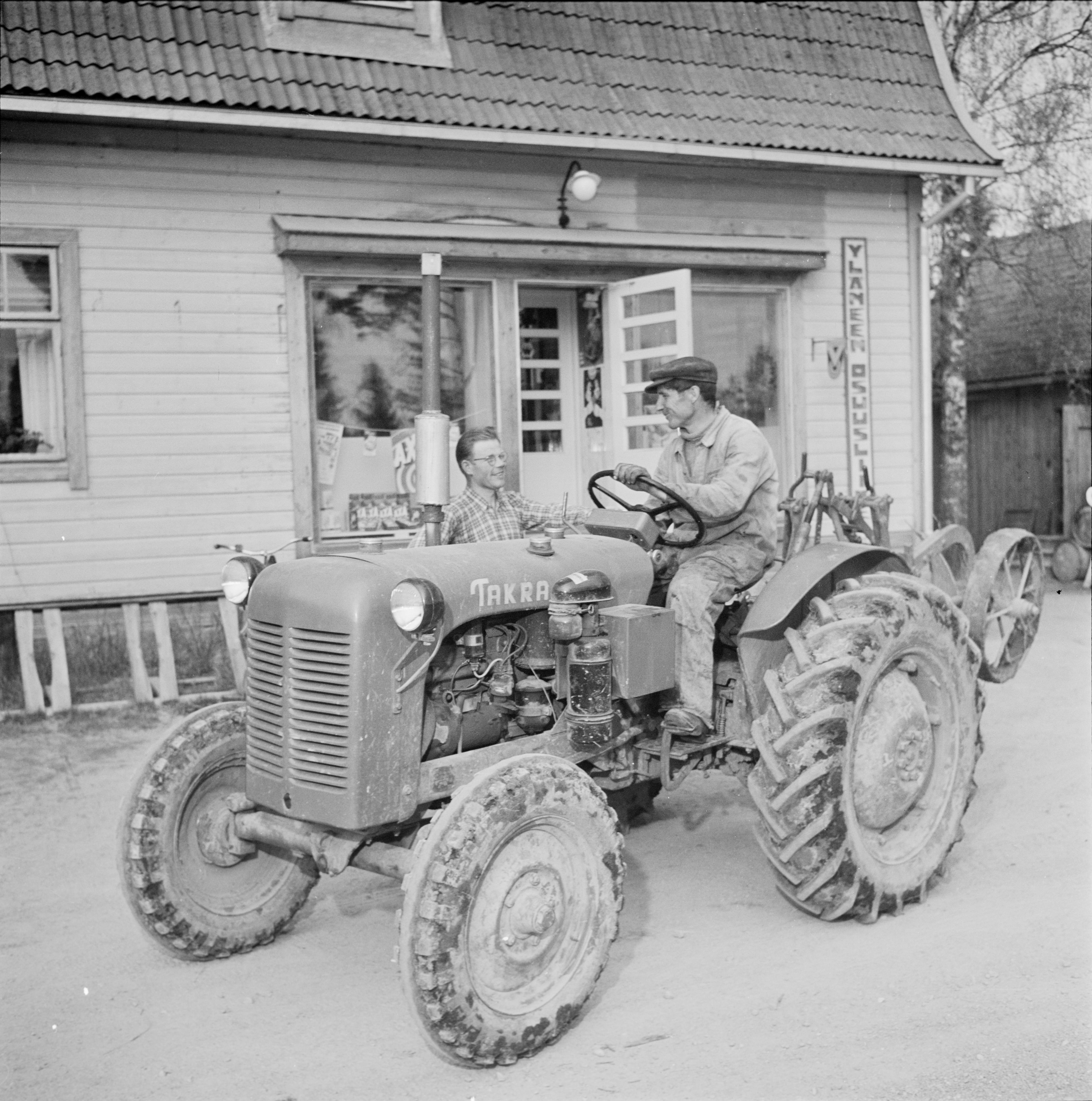 Maanviljelijä Viljo Koivisto asioimassa traktorilla Yläneen Osuusliikkeen Rannanmäen myymälässä. photographer unknown / kuvaaja tuntematon 1955 Yläne, Varsinais-Suomi, Finland / Suomi Finnish Museum of Photography / Suomen valokuvataiteen museo